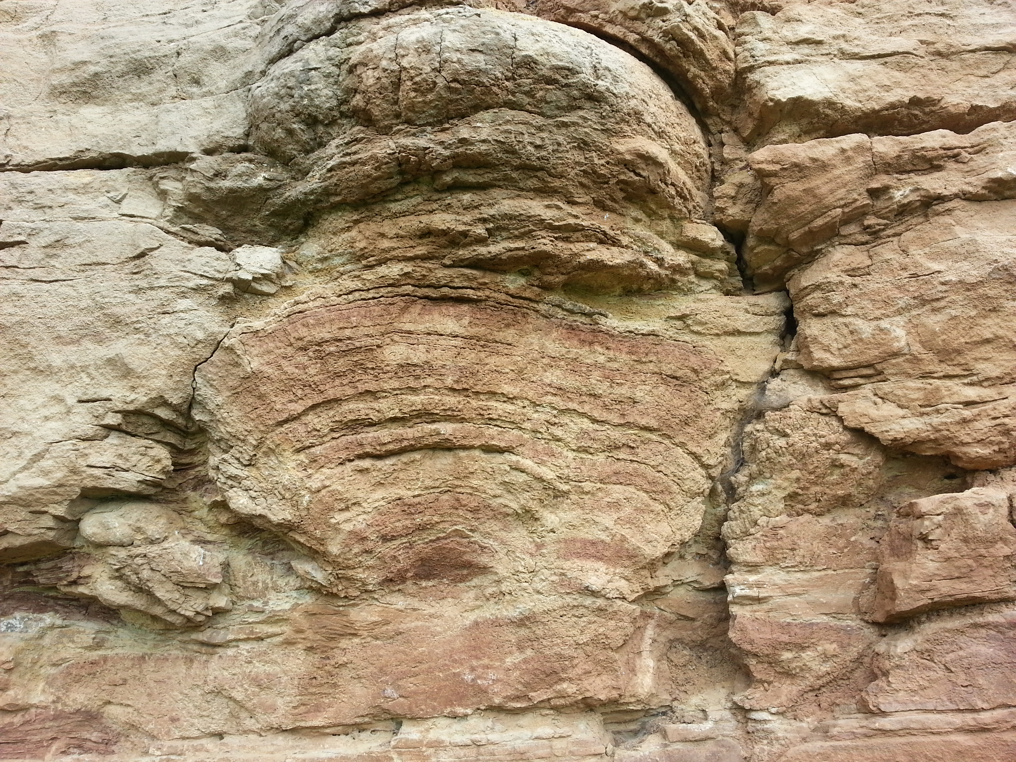 Detail of a fossil stromatolite in the old Heeseberg quarry, part of "Heeseberg" nature reserve, Lower Saxony, Germany